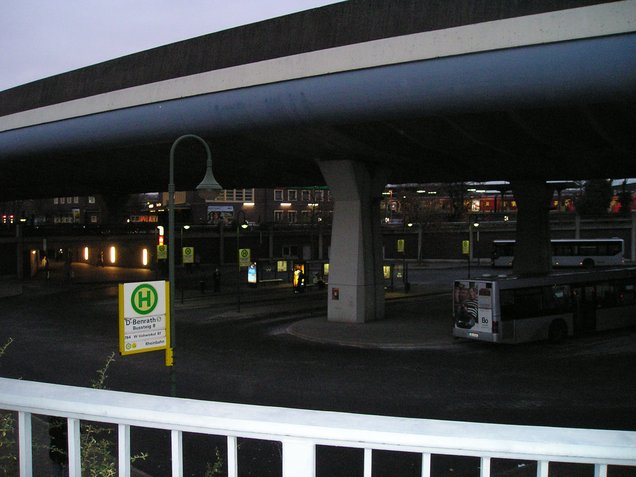 bus station in Düsseldorf-Benrath under the road bridge for the Münchener Straße in the evening